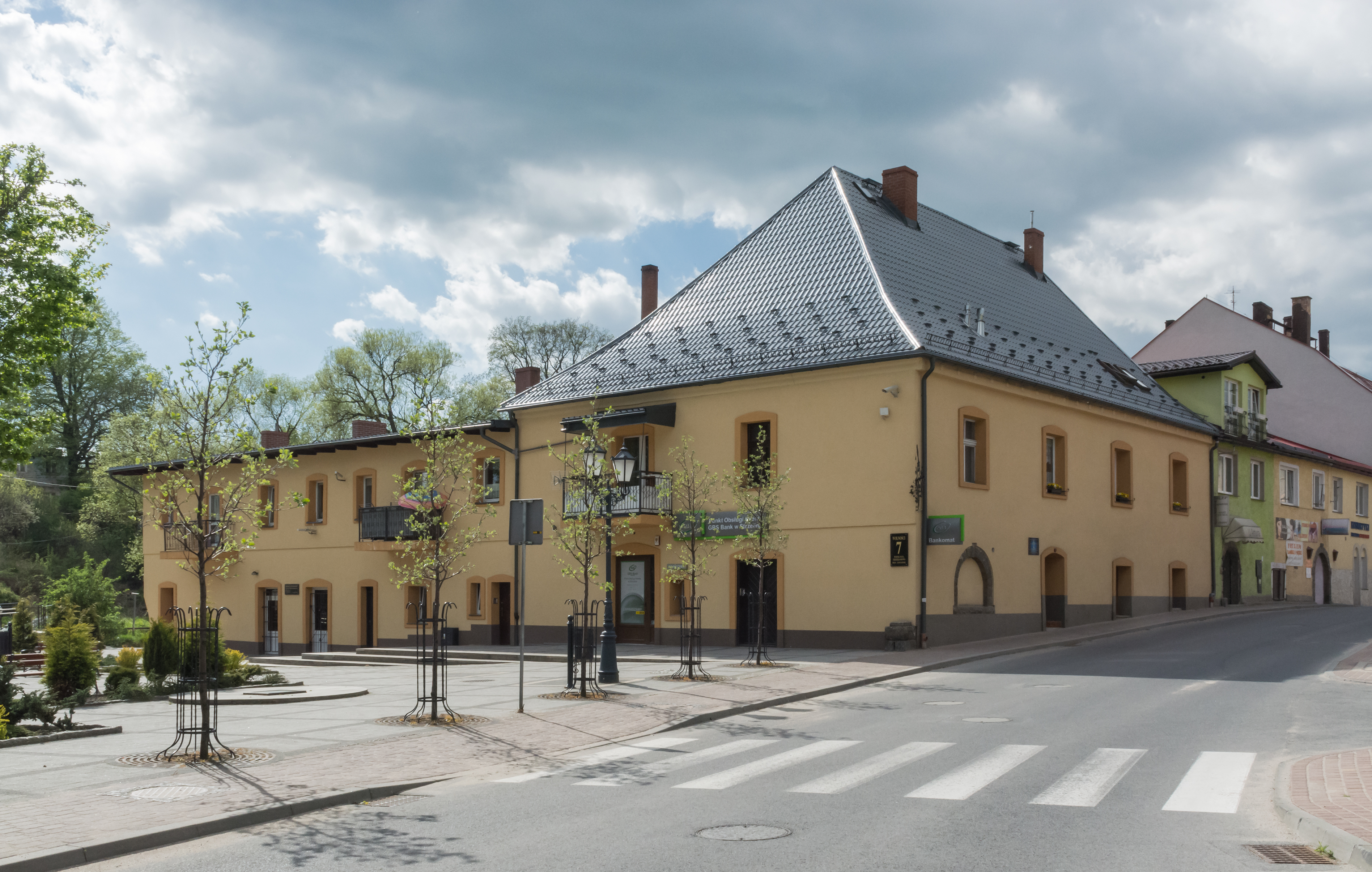 7 Wolności Street in Szczytna